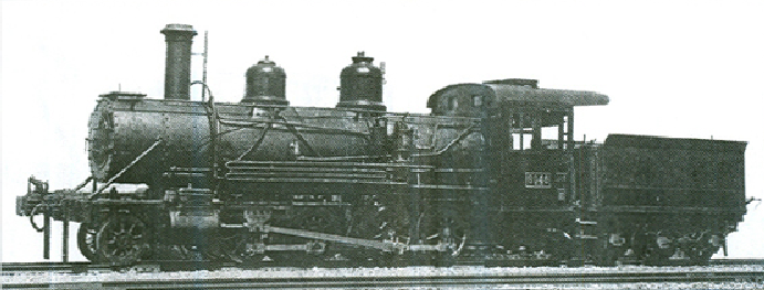 A Sorii-class locomotive of the Chosen Government Railway.